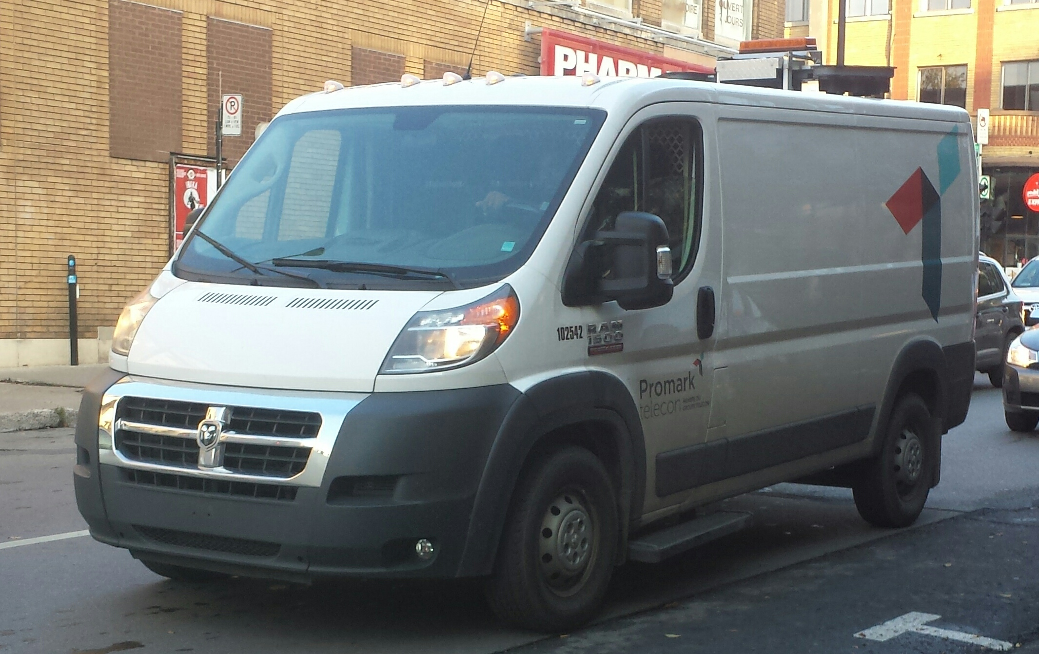 Ram ProMaster Promark Telecom photographed in Montreal, Quebec, Canada.